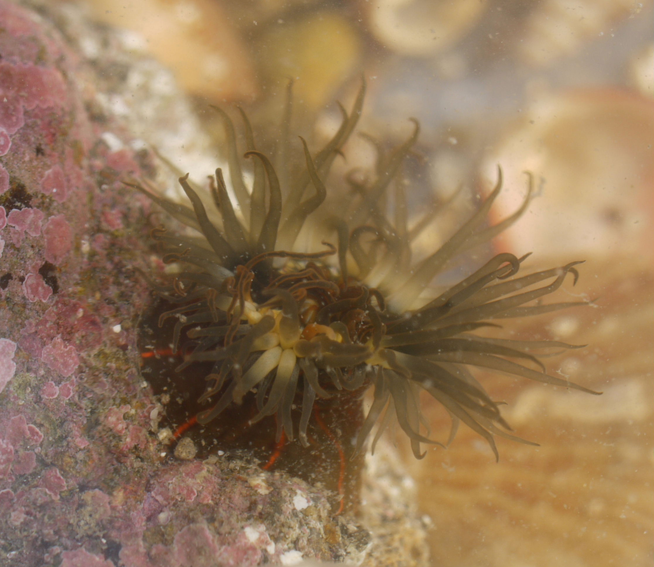 Diadumene lineata